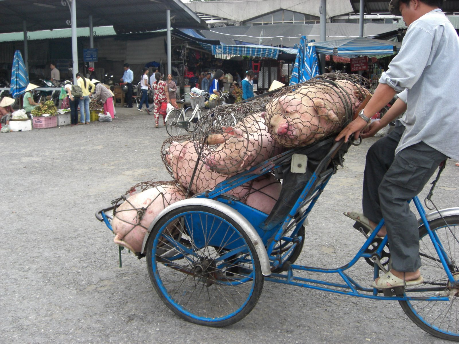 Living pigs delivered to the market in Hanoi